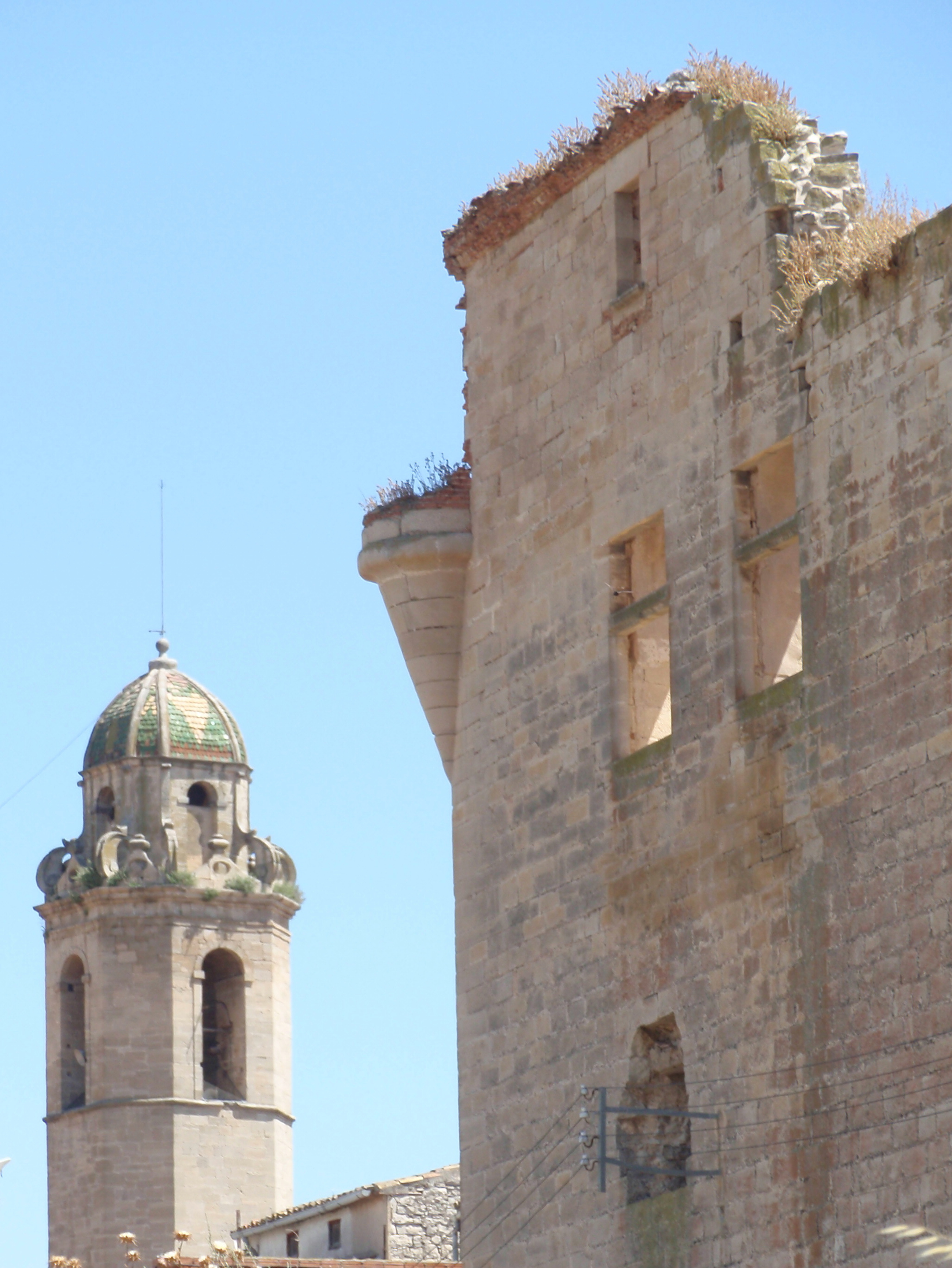 Maldà's Castle and Church.